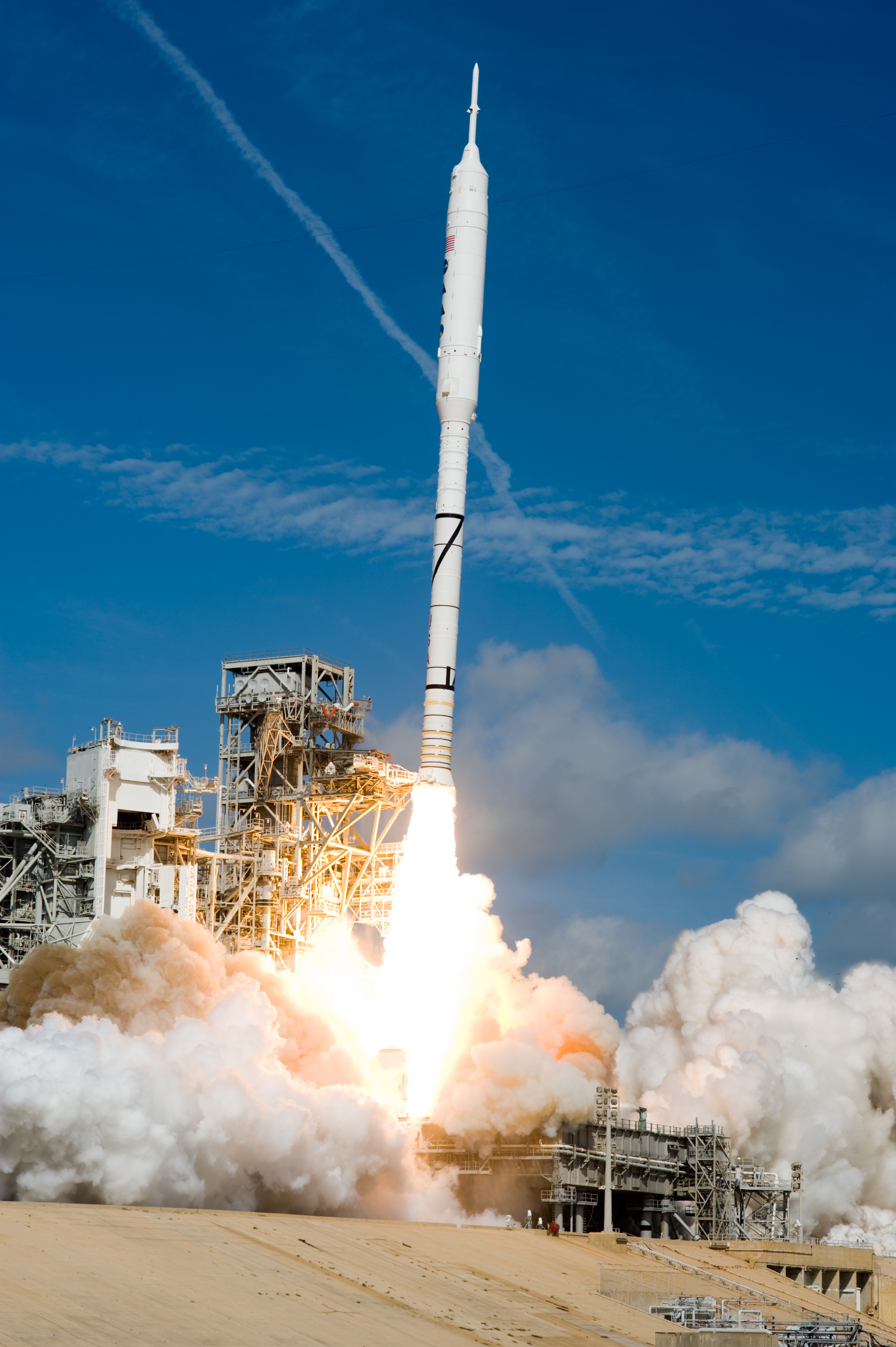 CAPE CANAVERAL, Fla. – Billowing clouds of smoke and steam rise as the Ares I-X test rocket launches from Launch Pad 39B at NASA's Kennedy Space Center in Florida at 11:30 a.m. EDT Oct. 28. NASA’s Constellation Program's 327-foot-tall rocket produces 2.96 million pounds of thrust at liftoff and reaches a speed of 100 mph in eight seconds. This was the first launch from Kennedy's pads of a vehicle other than the space shuttle since the Apollo Program's Saturn rockets were retired. The parts used to make the Ares I-X booster flew on 30 different shuttle missions ranging from STS-29 in 1989 to STS-106 in 2000. The data returned from more than 700 sensors throughout the rocket will be used to refine the design of future launch vehicles and bring NASA one step closer to reaching its exploration goals. For information on the Ares I-X vehicle and flight test, visit A Delta II rocket appears to erupt from the undulating clouds of smoke below